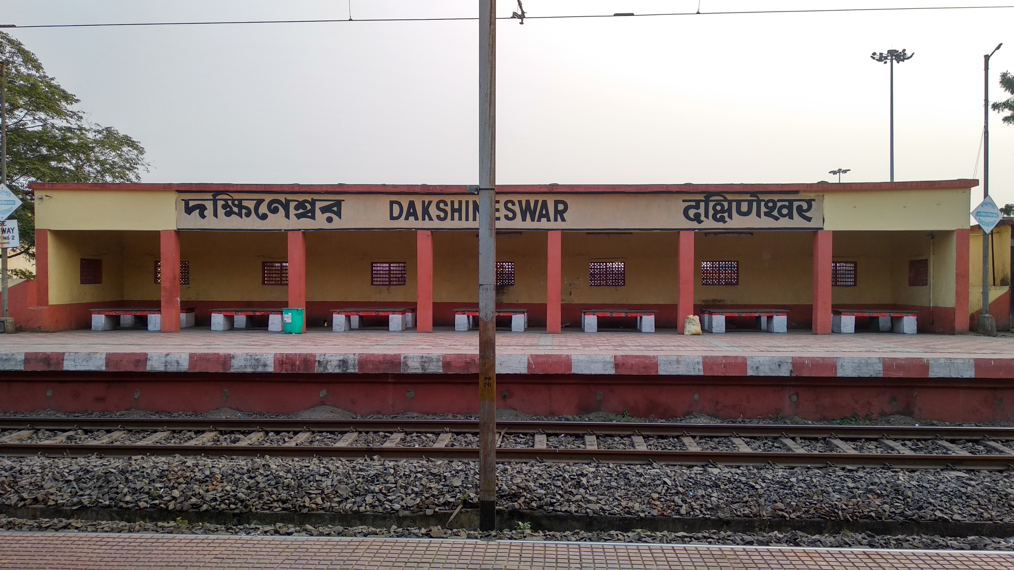 View of Dakshineswar Railway Station